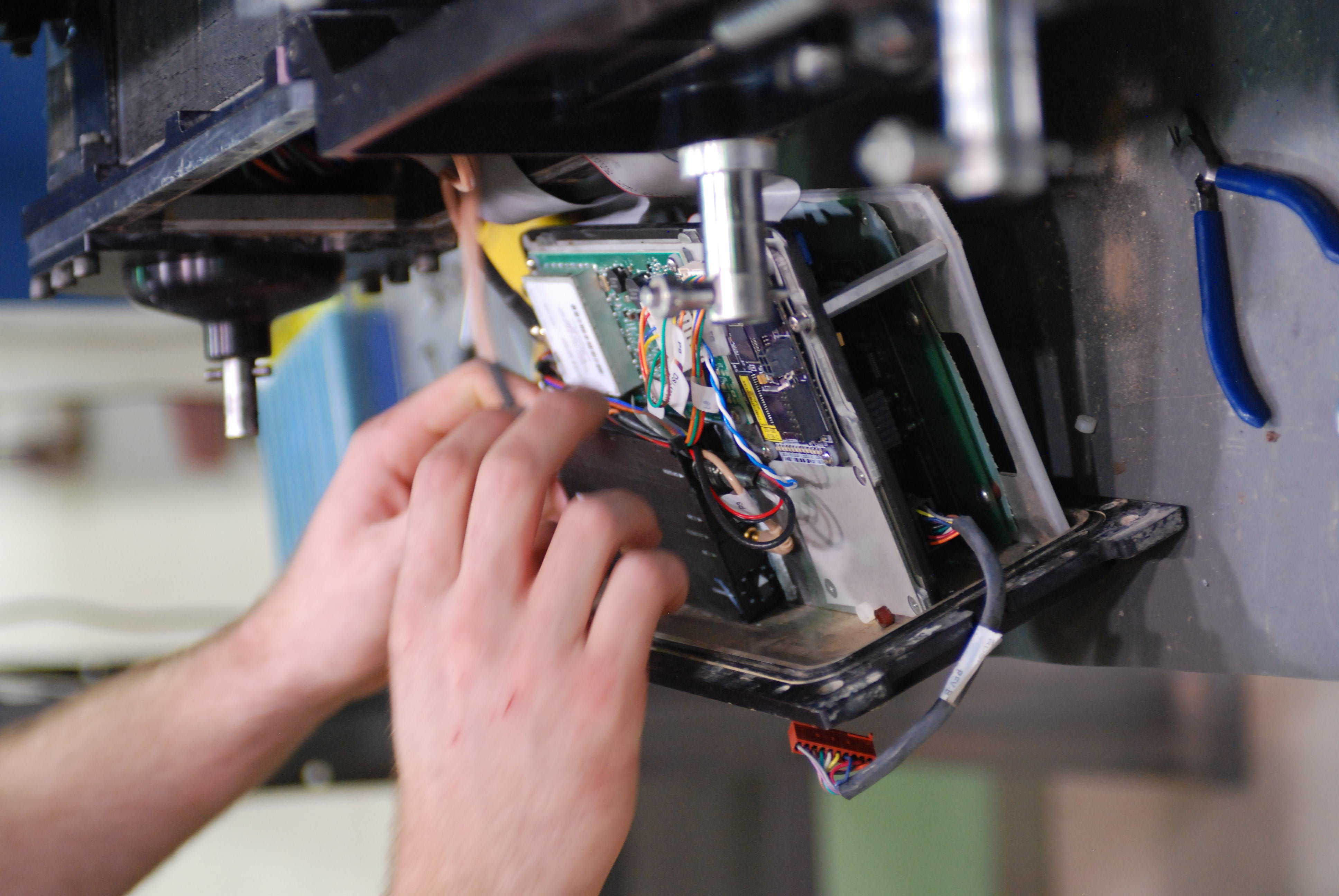 Shawn Wyzlic, a robot technician for the Joint Robotics Repair Detachment and native of Wixom, Mich., repairs a robot, one used to disarm and identify explosives, at the Joint Robotics Repair Facility on Camp Victory, Baghdad, Iraq, March 2, 2010. The robots come to the facility when needing repairs or a unit is leaving Iraq so they can be cleaned and given to another unit in need of them.